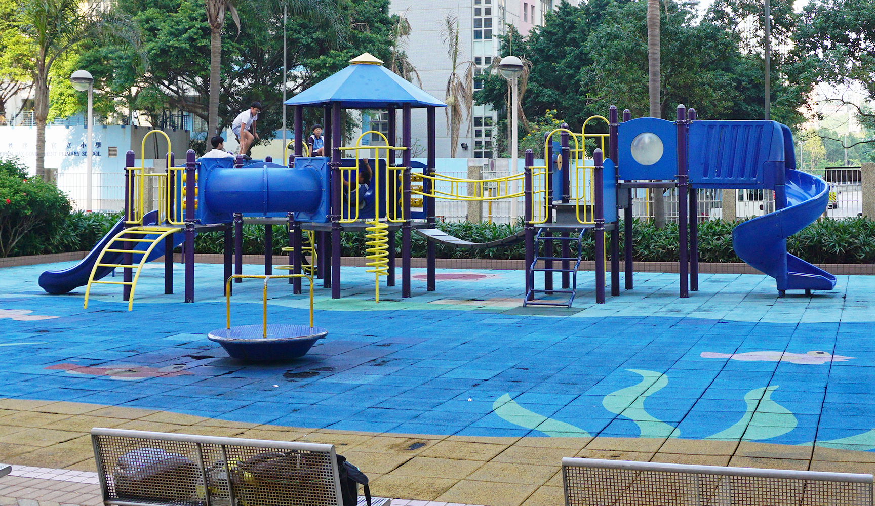 Tung Yuk Court in Shau Kei Wan, Hong Kong.